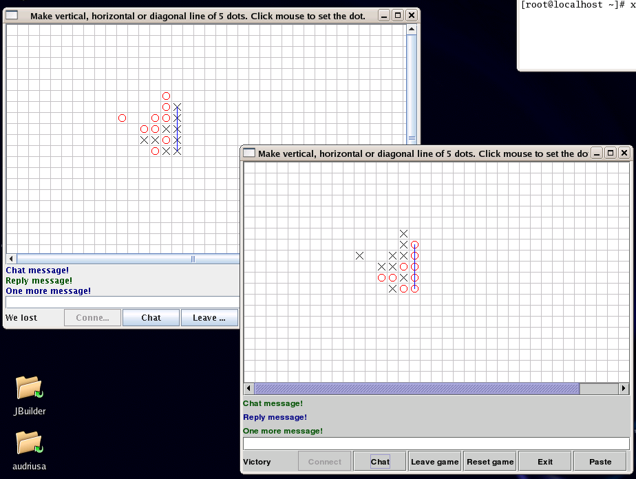 Demonstration of CORBA interoperability between GNU Classpath + JamVM and Sun Microsystems.